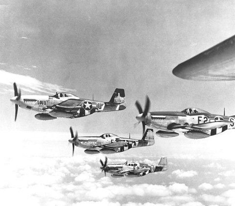 "The Bottisham Four", four U.S. Army Air Force North American P-51 Mustang fighters from the 375th Fighter Squadron, 361st Fighter Group, from RAF Bottisham, Cambridgeshire (UK), in flight on 26 July 1944. The nearest aircraft is P-51D-5-NA s/n 44-13410 ("Lou IV" on the left side, the 4th aircraft named after his daughter, "Athelene" on the right side, probably the crew chief's lady friend or wife), flown by the 361st CO, Col. Thomas J.J. Christian Jr., who was killed in this plane while dive-bombing the Arras marshalling yards on 12 August 1944. The 2nd aircraft is P-51D-5-NA s/n 44-13926, already equipped with the fin-fillet, was flown by Lt. Urban L. "Ben" Drew. This aircraft crashed during a training flight near Stalham, Norfolk, on 9 August 1944, the pilot, 2Lt. Donald D. Dellinger, was killed. The 3rd aircraft is P-51D-5-NA s/n 44-13568 ("Sky Bouncer" later "Alice Marie") flown by Capt. Bruce W. "Red" Rowlett, 375th FS operations officer. This aircraft suffered an engine failure on take-off and crashed on 3 April 1945. The furthest P-51 is P-51B-15-NA s/n 42-106811 flown by Capt. Francis T. Glankler (named "Suzy-G", after his wife), 375th FS "D" Flight commander. This plane was was written off after a crash landing at Bottisham following a combat mission on 11 September 1944.